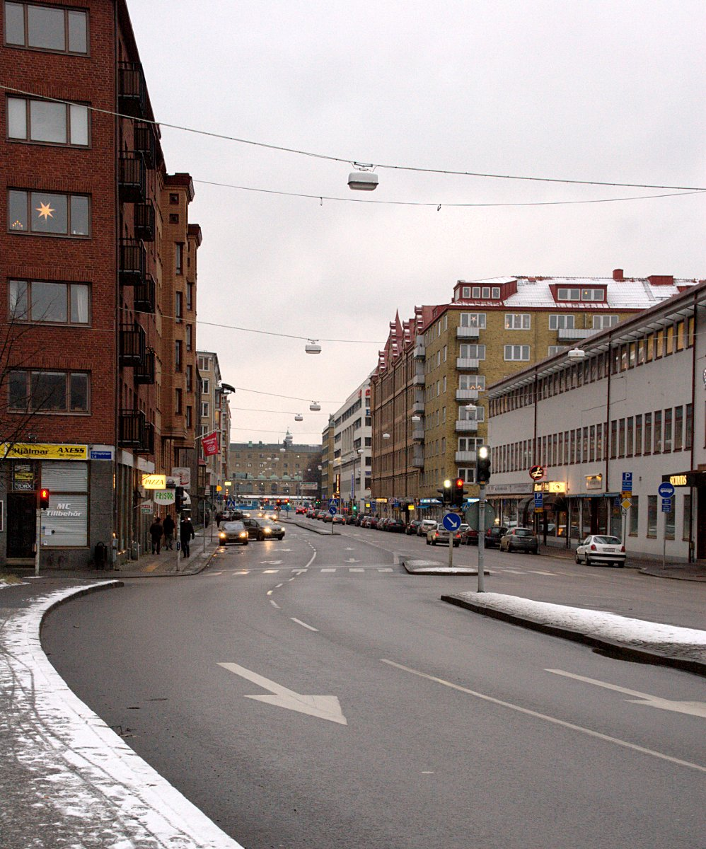 Odinsdata in Gothenburg, Sweden